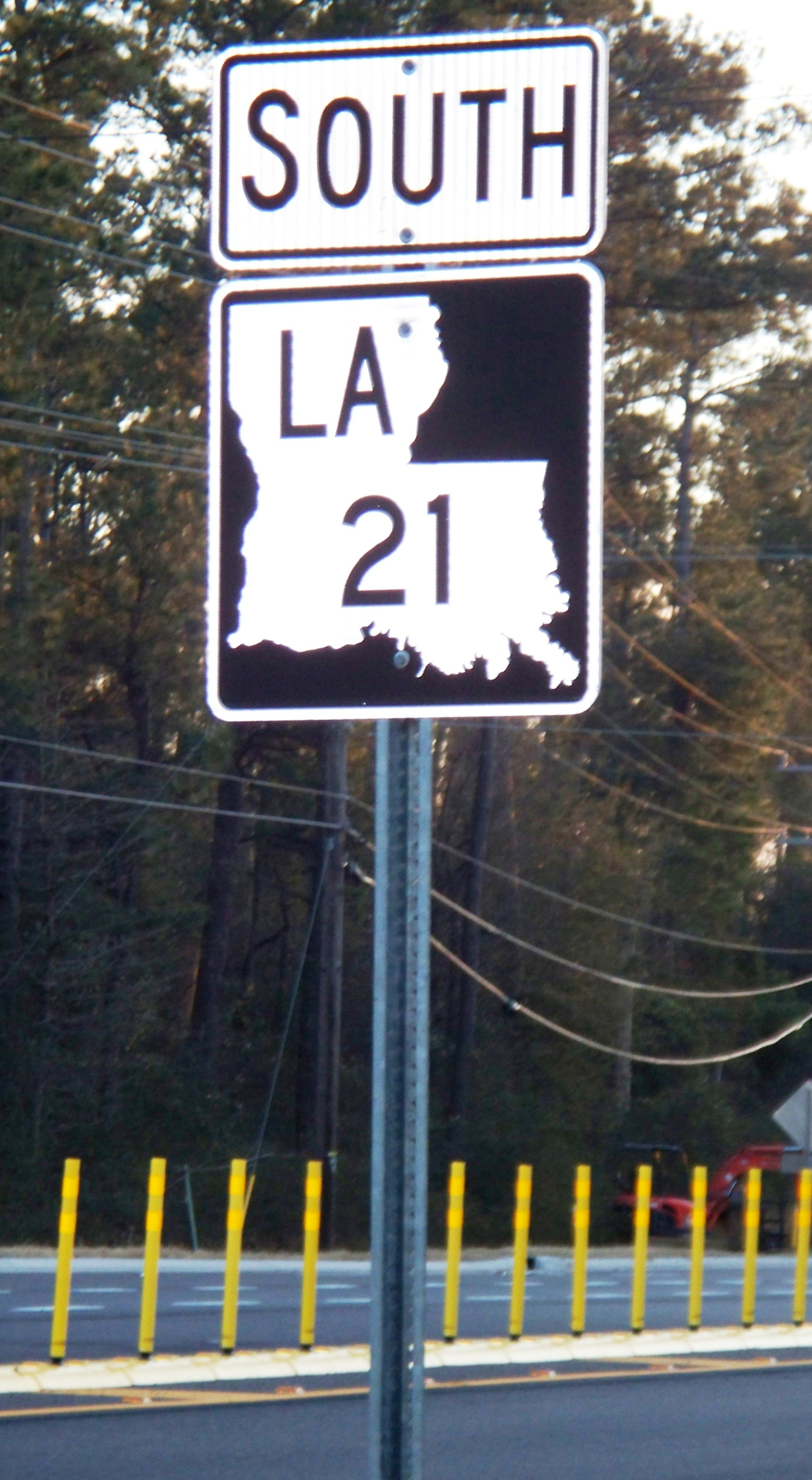 Louisiana black-and-white highway shield with white border, on LA 21 south of Covington